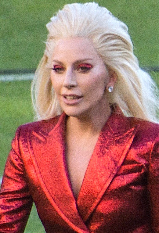 Lady Gaga at Super Bowl 50 on February 7, 2016